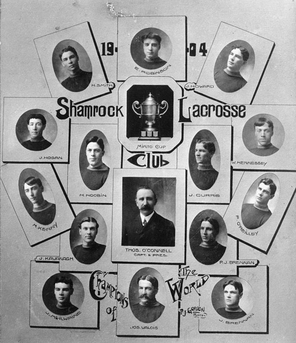 Title / Titre : Shamrock Lacrosse Club, 1904. The Champions of the World / Le club de crosse Shamrock, 1904. Champions du monde Creator(s) / Créateur(s) : Gordon Date(s) : 1904 Reference No. / Numéro de référence : C-008440 Location / Lieu : Unknown / Inconnu Credit / Mention de source : Canada. Patent and Copyright Office / Bureau des brevets et du droit d'auteur; Library and Archives Canada / Bibliothèque et Archives Canada; C-008440.